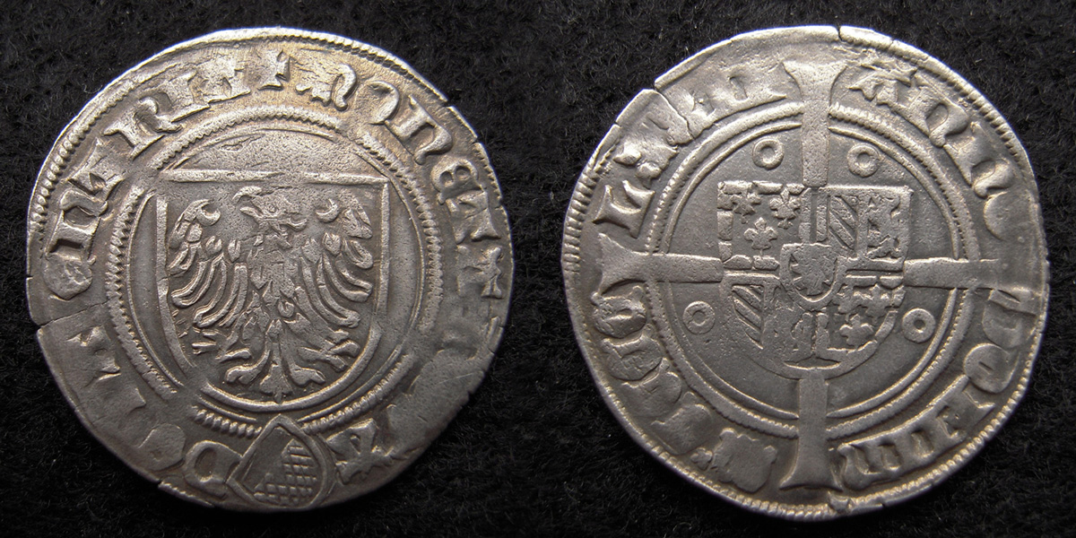 Witpenning or double groat, silver, Deventer mint, 1472.